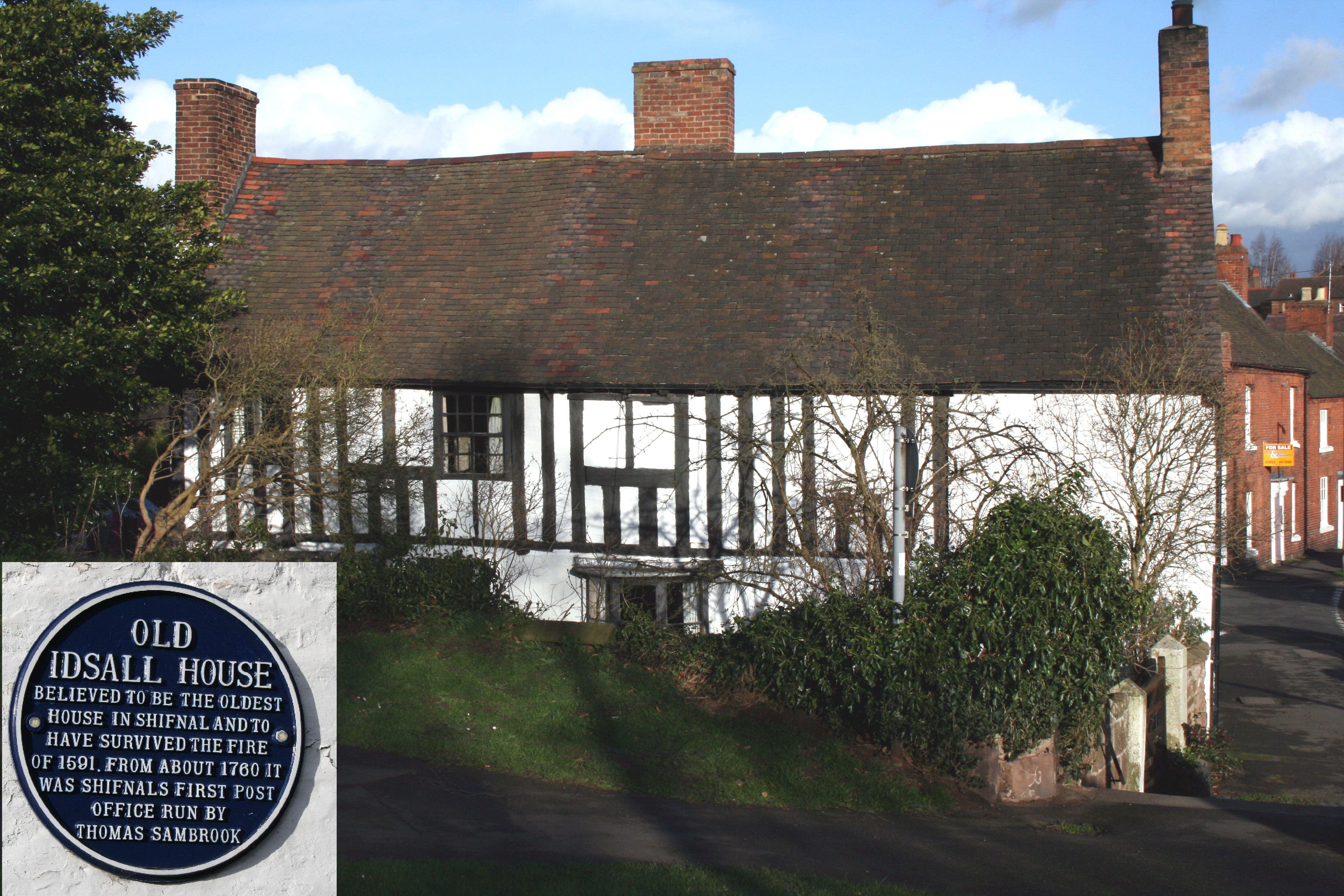 Old Idsall House in Shifnal Shropshire - with picture of blue plaque inset Own work